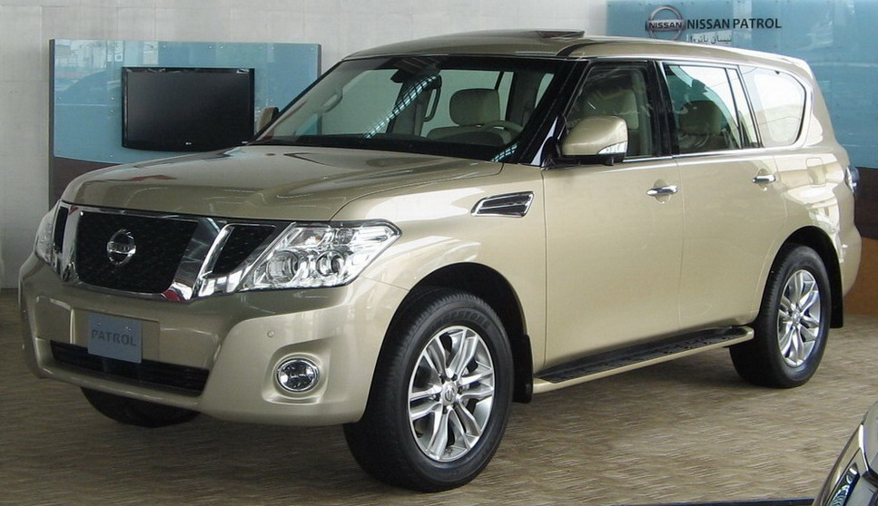 Nissan Patrol